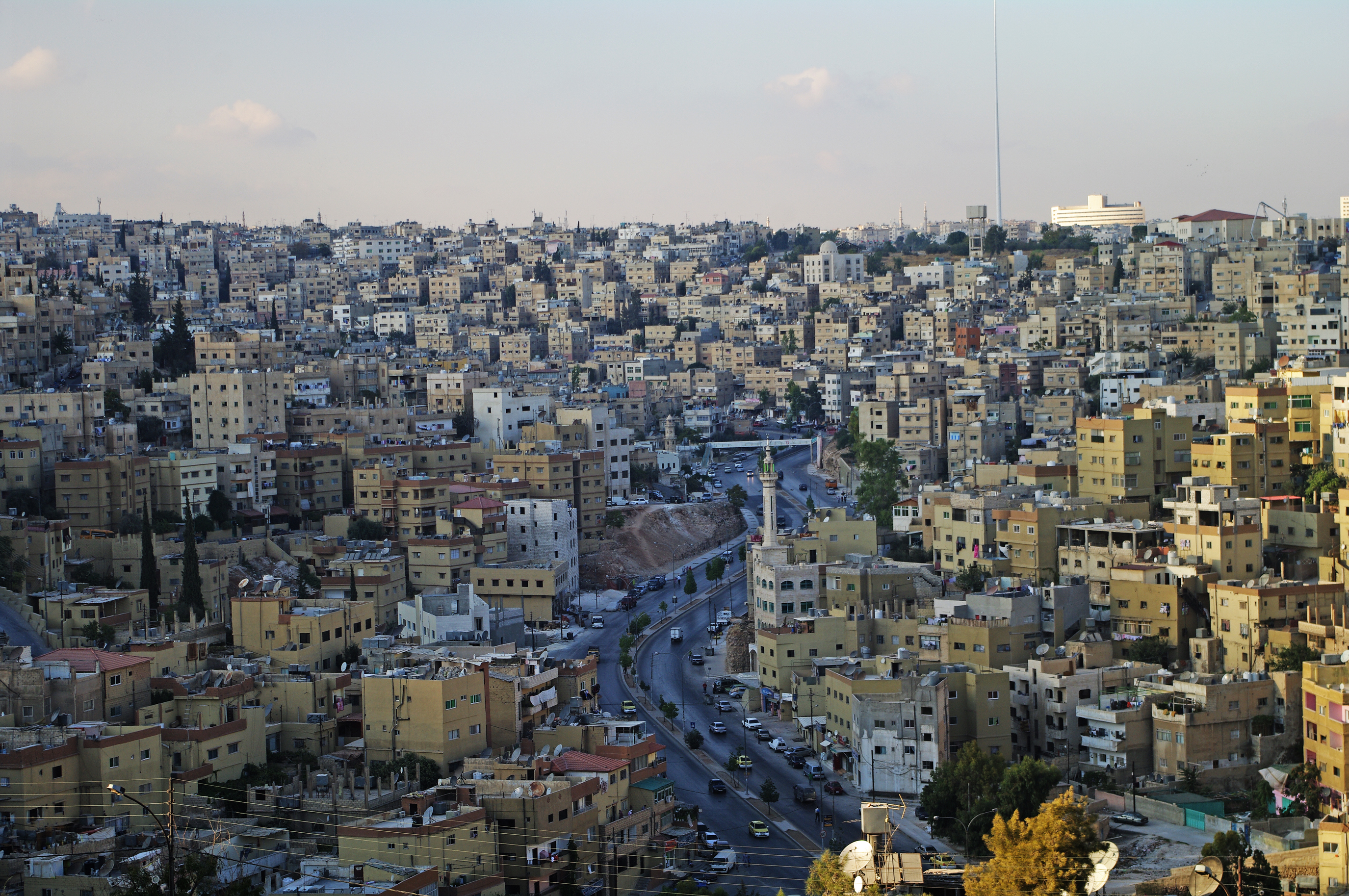 A view of Amman city from the Amman Citadel. Amman, Jordan.